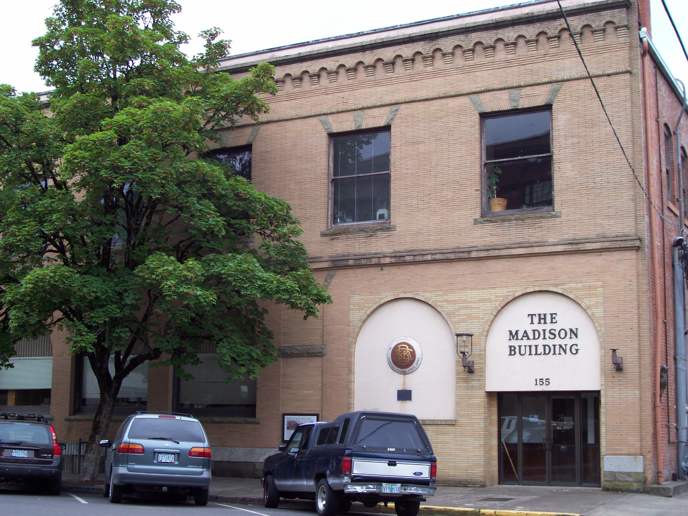 Benton County State Bank Building. Listed on the Natioinal Register of Historic Places.